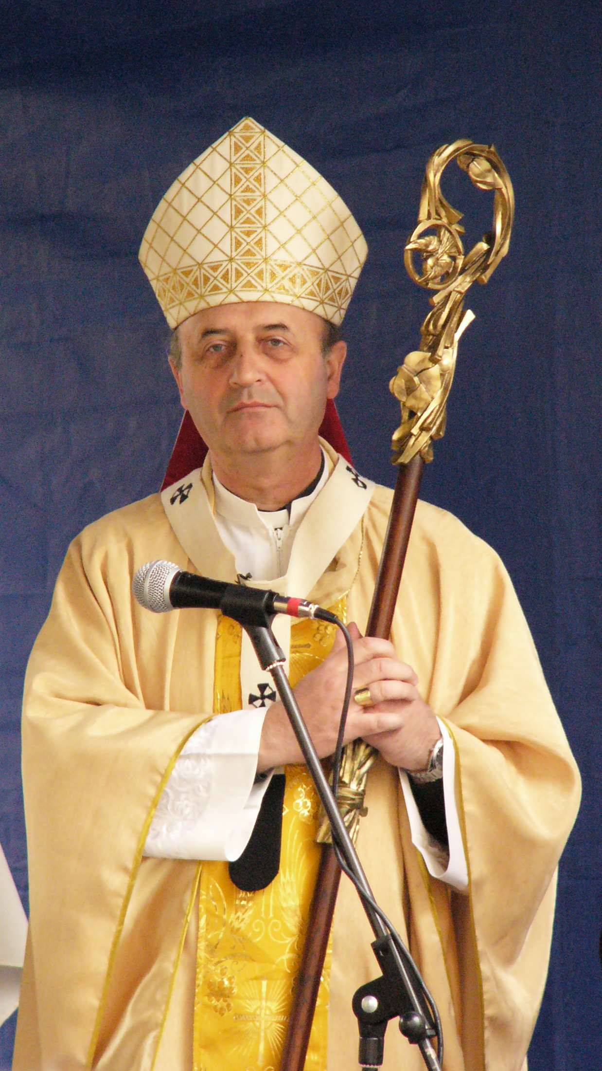 Jan Graubner, archbishop of Olomouc. He is holding a crosier, that was made by sculptor Otmar Oliva in 1994.